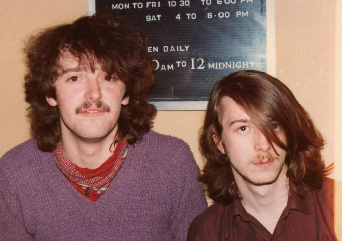 Maconie c1979 with 'Les Flirts' bassist Nigel Power.